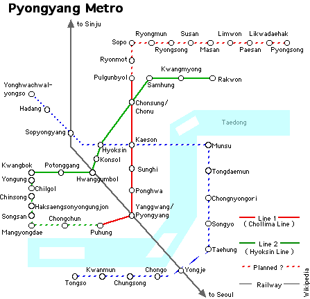 Map of the Pyongyang metro. Possible extensions (planned?) are included as dashed lines. Based on information found at Pyongyang Metro (accessed spring 2005).